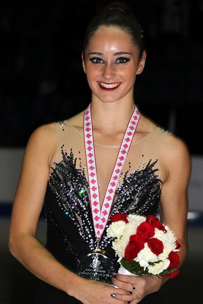 Kaetlyn Osmond at the Sкate Canada 2017